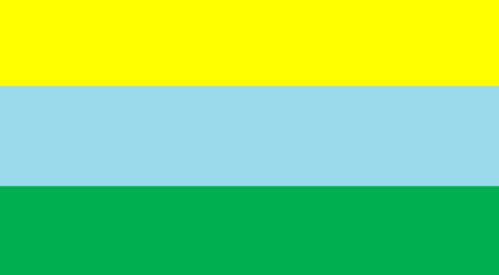 Español